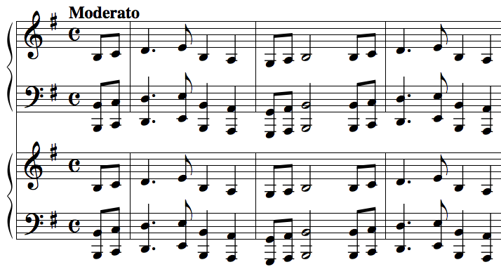 Russian Rhapsody, composed by Sergei Rachmaninof in 1891.